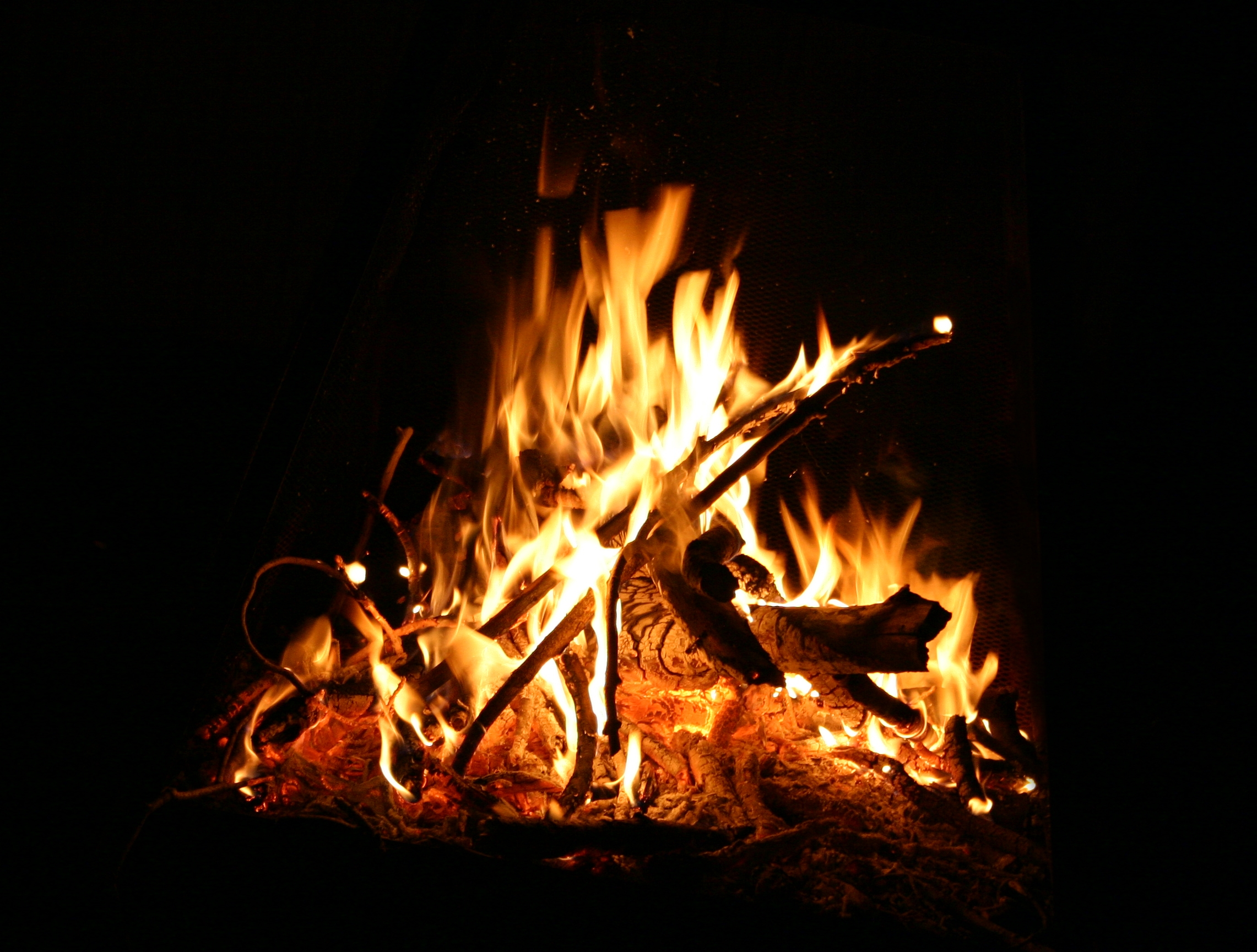 Camp fire